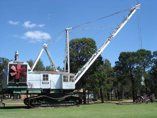 Bucyrus Erie Class III Dragline, in Coleambally, NSW, Australia. Photograph taken by G. Dunn, 2005.